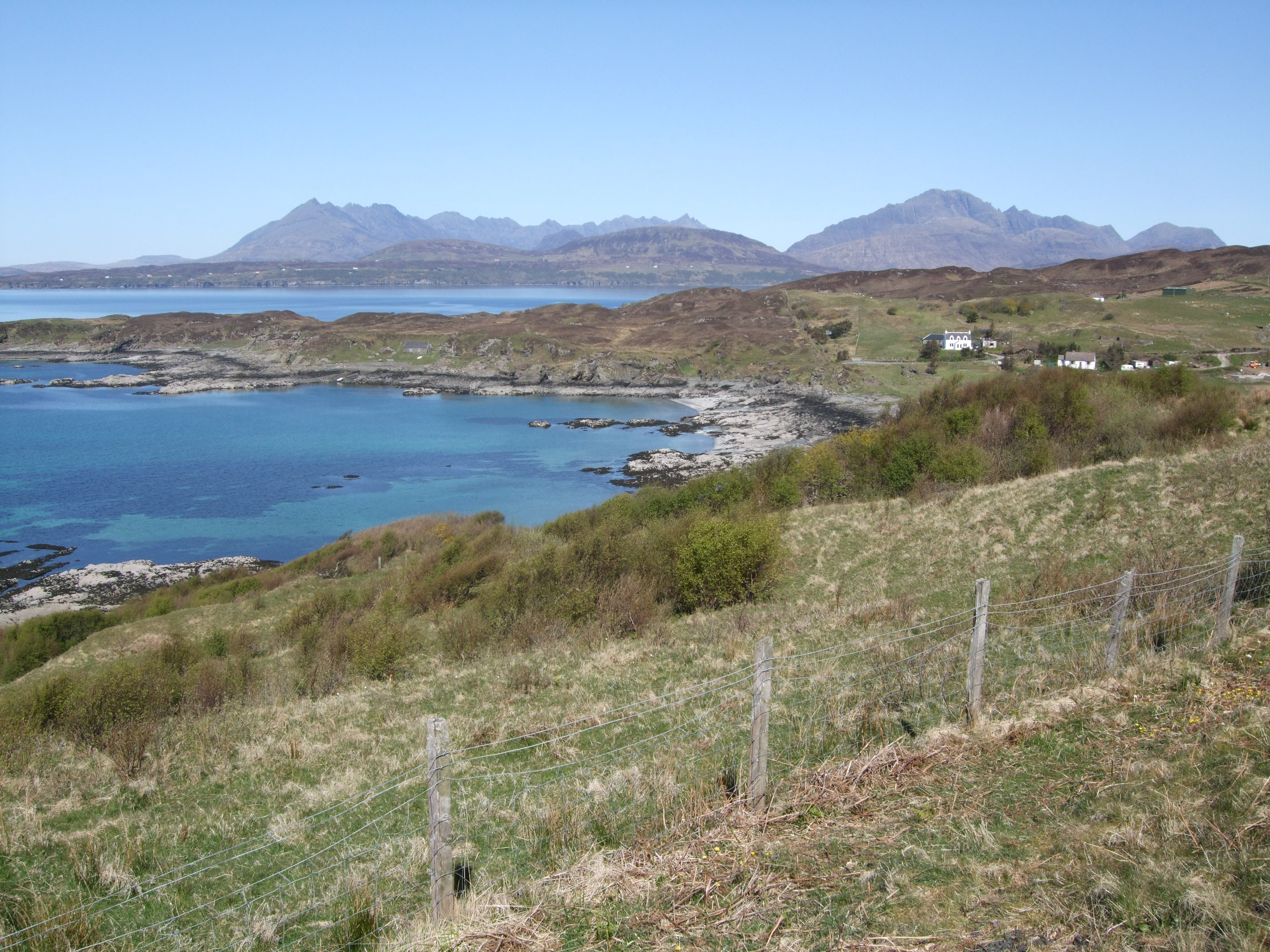 Photo of Tarskavaig Bay